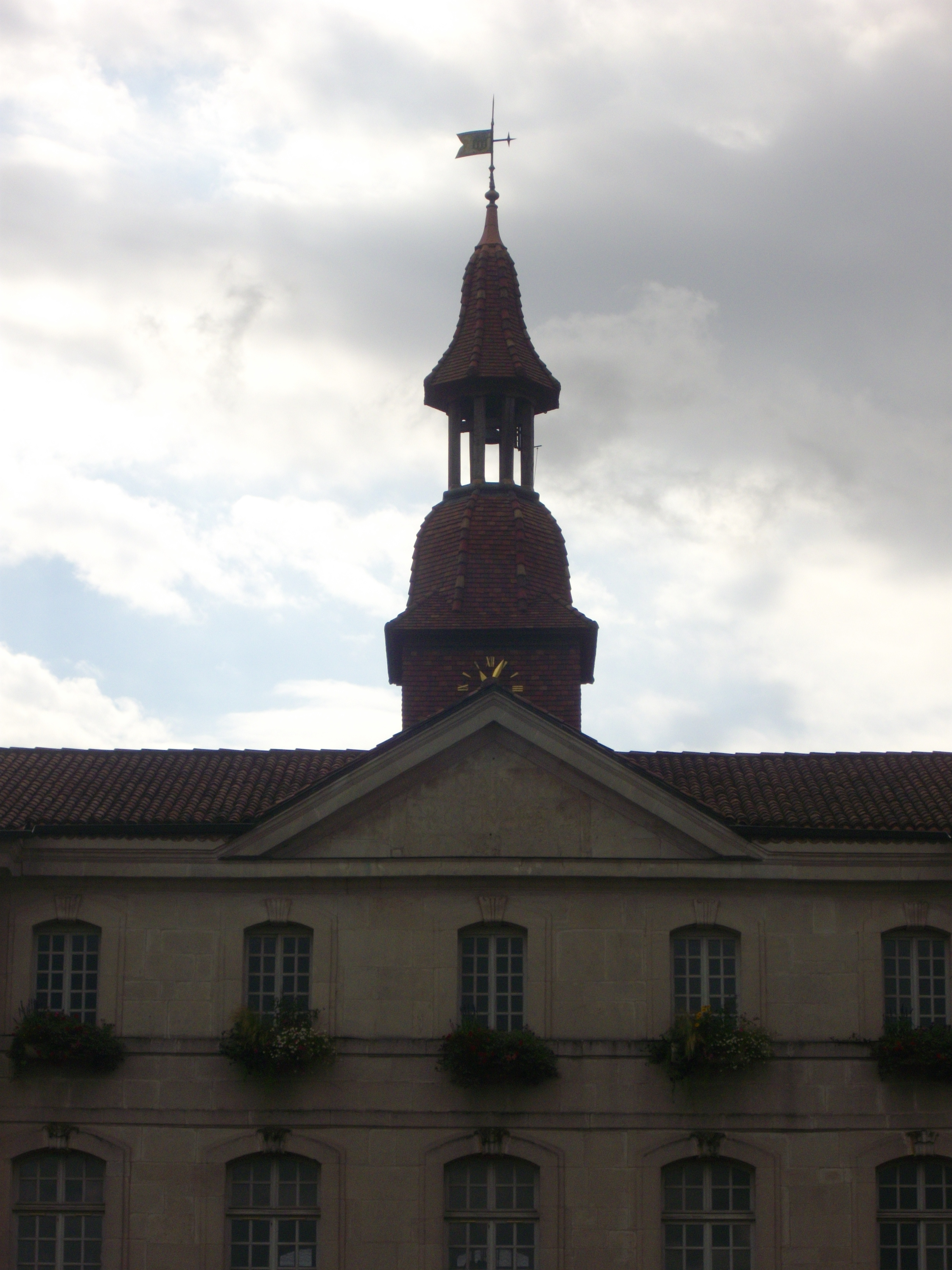 Former town hall of Commercy (Meuse, France). Ridge turret .